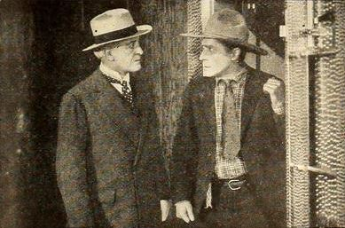 Still from the American film The Money Corral (1919) with Winter Hall and William S. Hart, on page 9 of the July 1919 Film Fun.